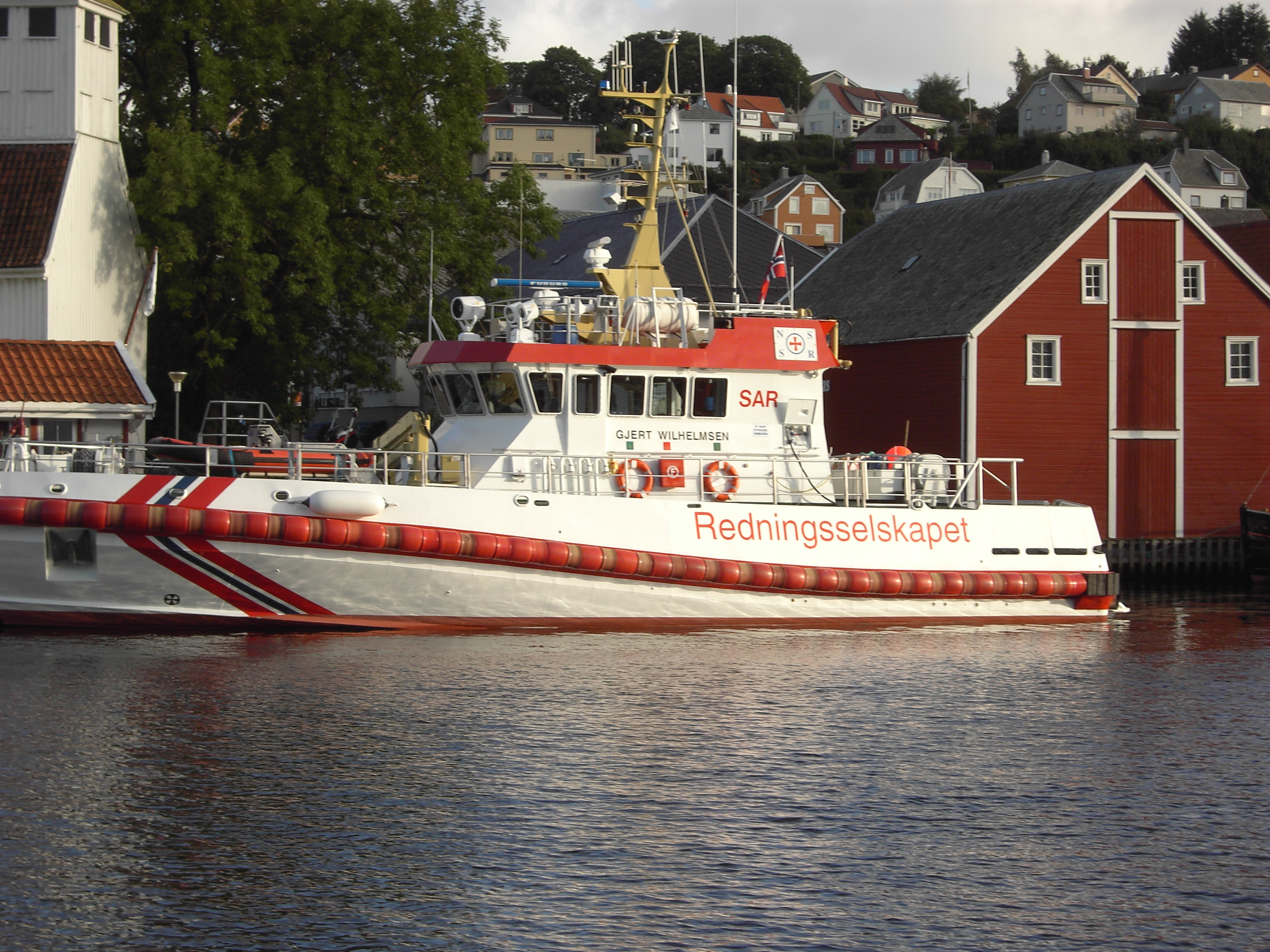 Search and Rescue vessel "Gjert Wilhelmsen" of Norway Redningsselskapet Original photograph taken by Nol Aders on 30th August 2005, 17:49 in the port of Egersund